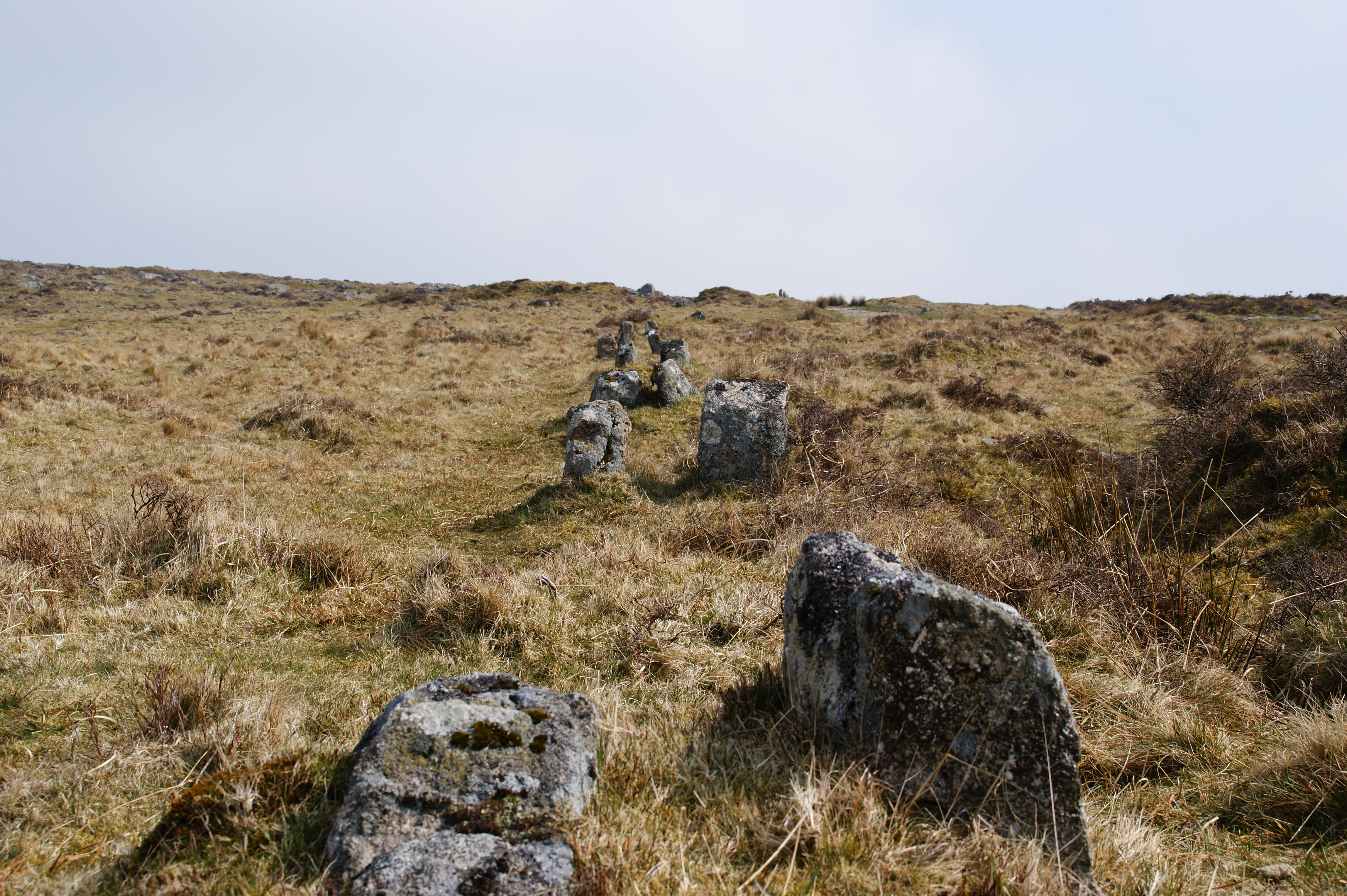 A view of line of twin stone posts along which the rod ran to take power from the wheelpit to other parts of the mine at Eylesbarrow mine on Dartmoor in South Devon, UK.